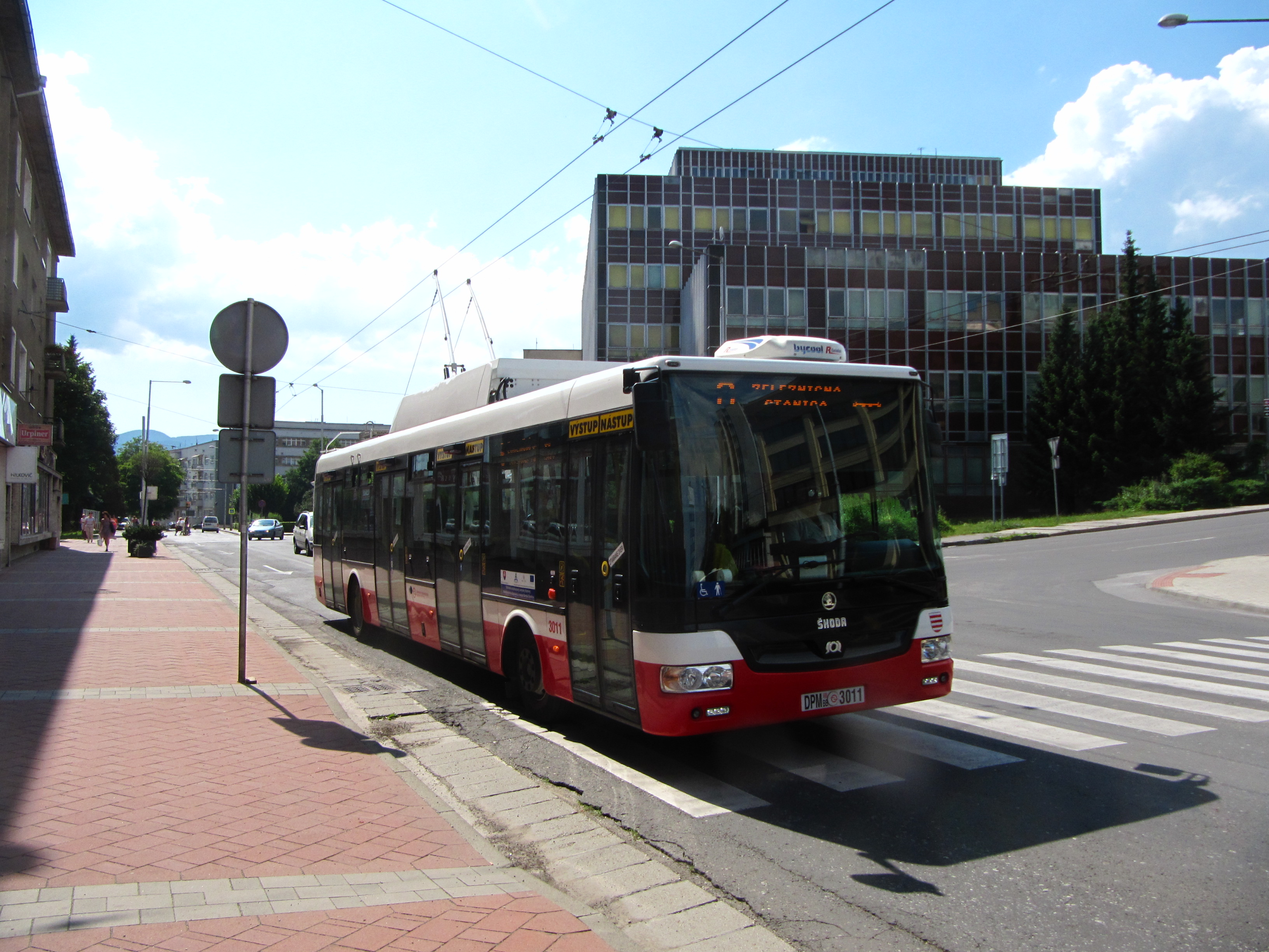 Trolleybus number 3011 in Banská Bystrica.